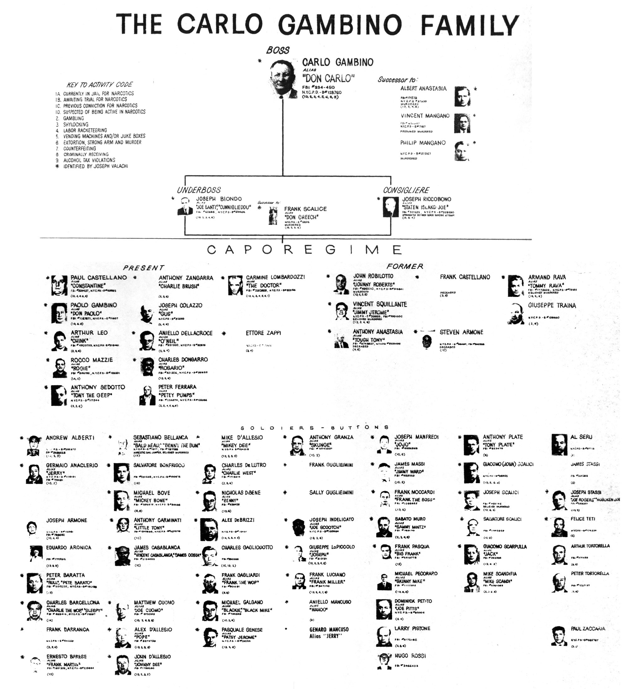 Descendants of Gambino Crime Family